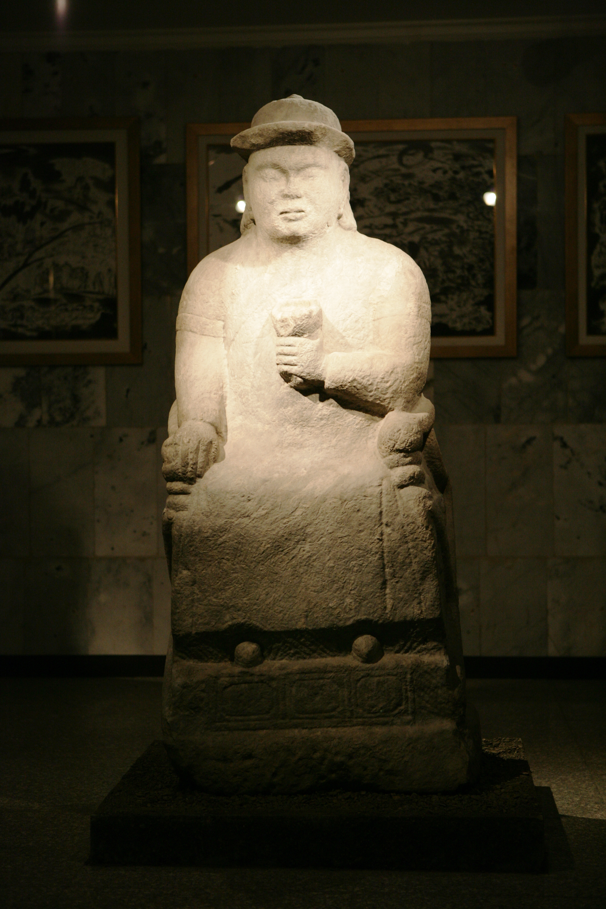 A sculpture of a bell-headed five-headed statue of a man stands inside the National Museum of Mongolian History in Ulaanbaatar, Mongolia. The museum preserves the Mongolian cultural heritage. Монгол: Шонх таван толгойн хүн чулуун хөшөө.